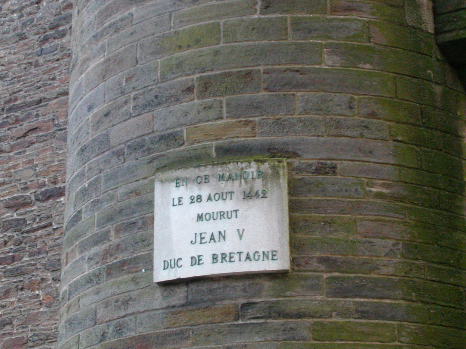 Plaque commemorating the death of John VI, Duke of Brittany, on the wall of Musée Dobrée in Nantes